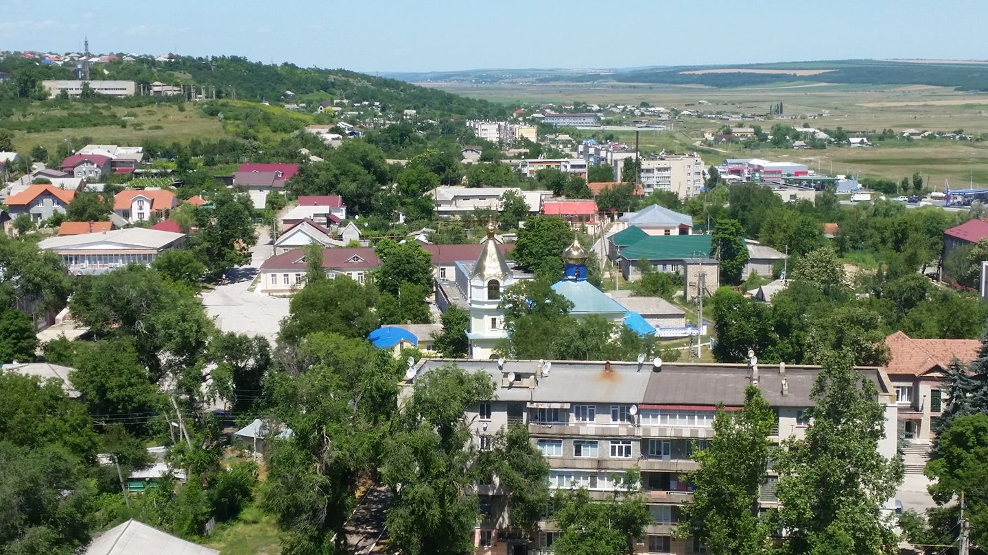 Panorama of Cimișlia, a city in southern Moldova